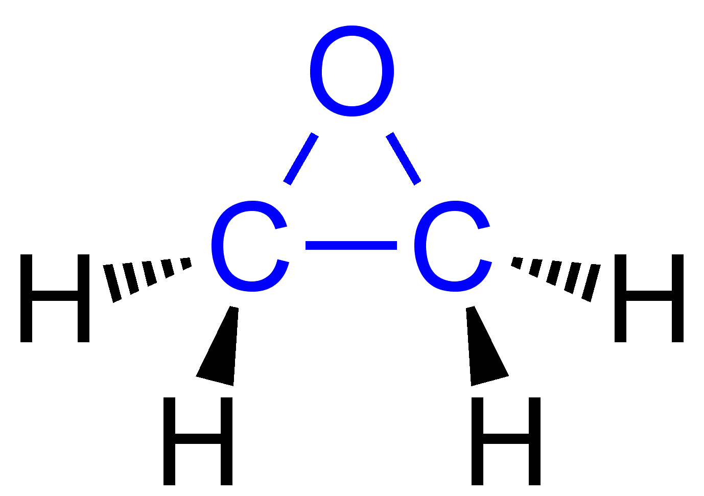 Ethylenoxide_Structural_Formulae